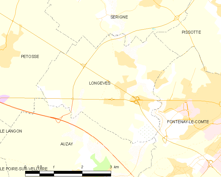 Map of French municipality Longèves